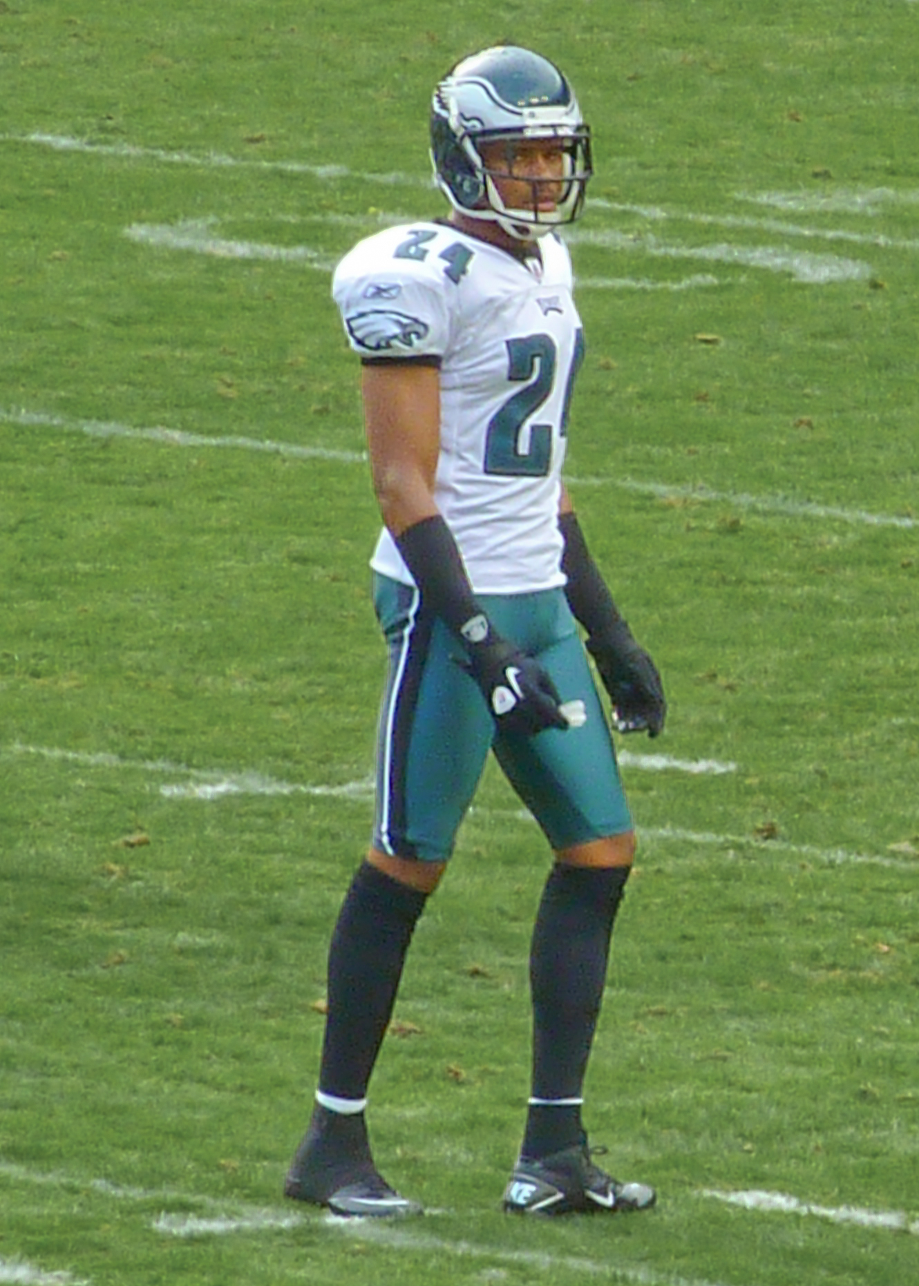 Nnamdi Asomugha of the Philadelphia Eagles.